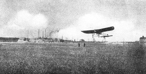 Airplane of Jan Kašpar taking off in Pardubice